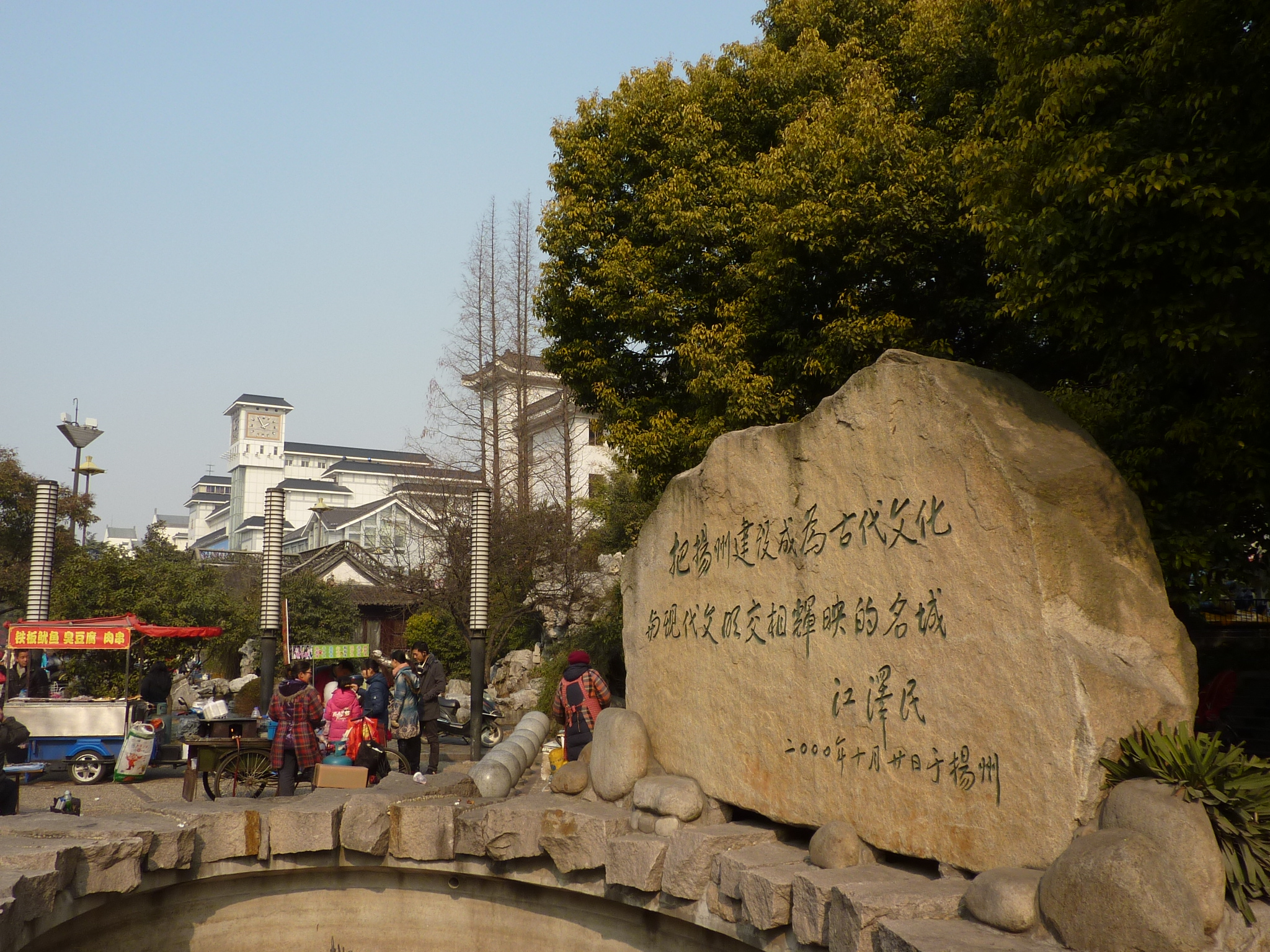 A stone with Jiang Zemin's inscription by the side of Yangzhou's Wenhe Rd, near Wenchang Square